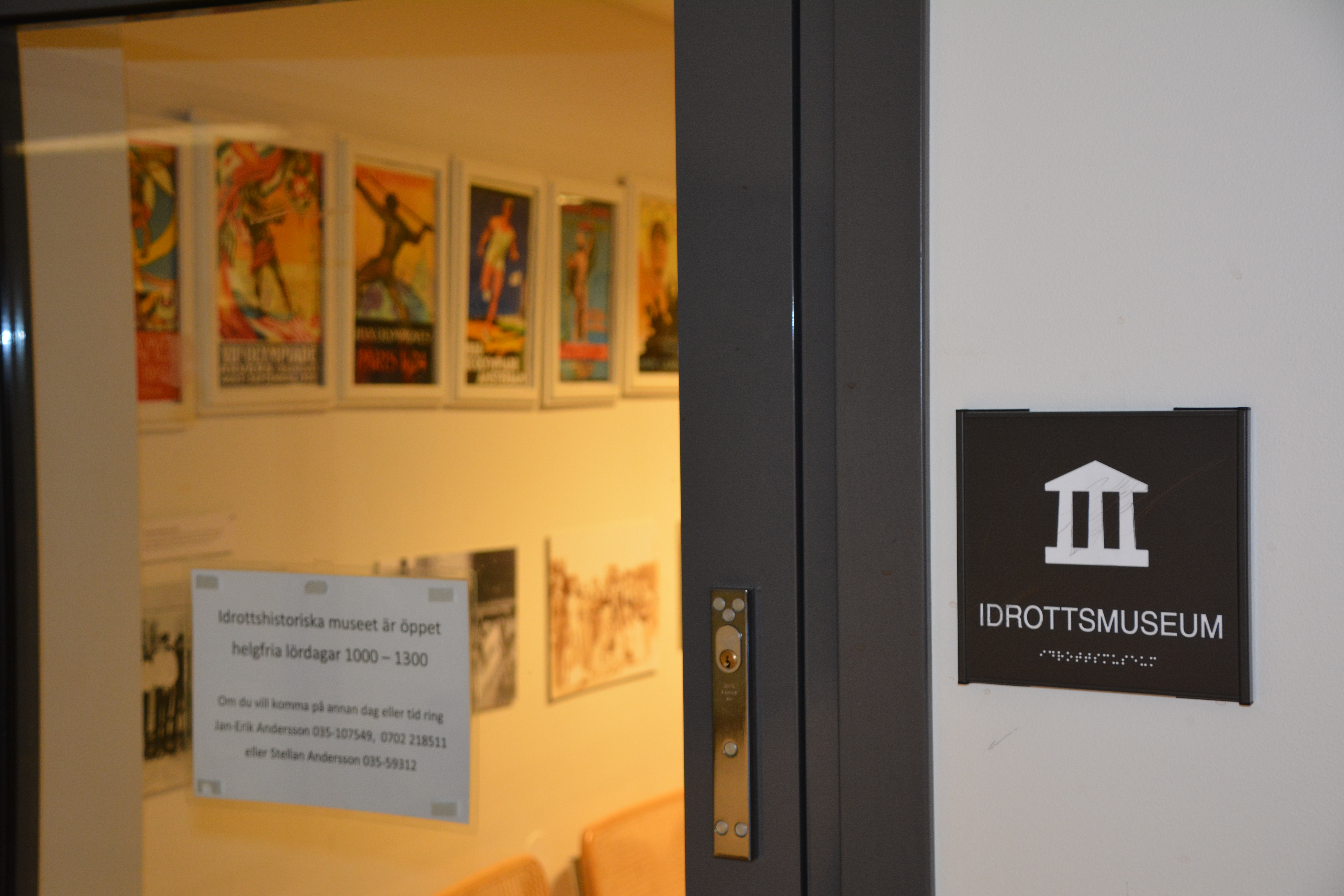 Ingången till Halmstads idrottsmuseum, Halmstad Arena